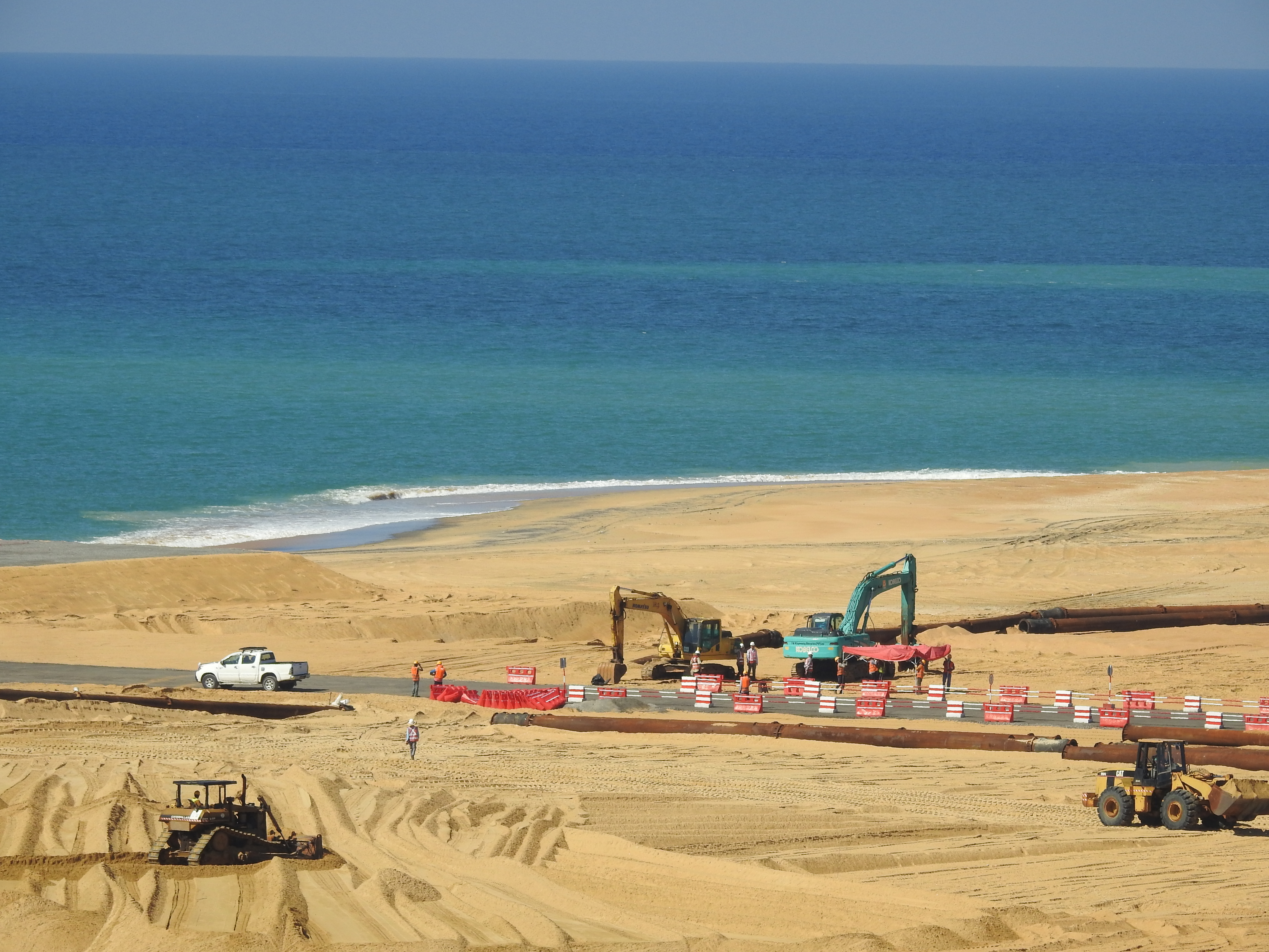 Photos of current/future skyscrapers (and its surroundings) in Colombo, taken by User:Rehman and User:Azeez as part of a photowalk project by Wikimedia Community User Group Sri Lanka. The photowalk covered most of the tallest structures in Colombo that are either completed or under construction. Further information on the subject(s) of the photograph can be found in the category/ies of this file.